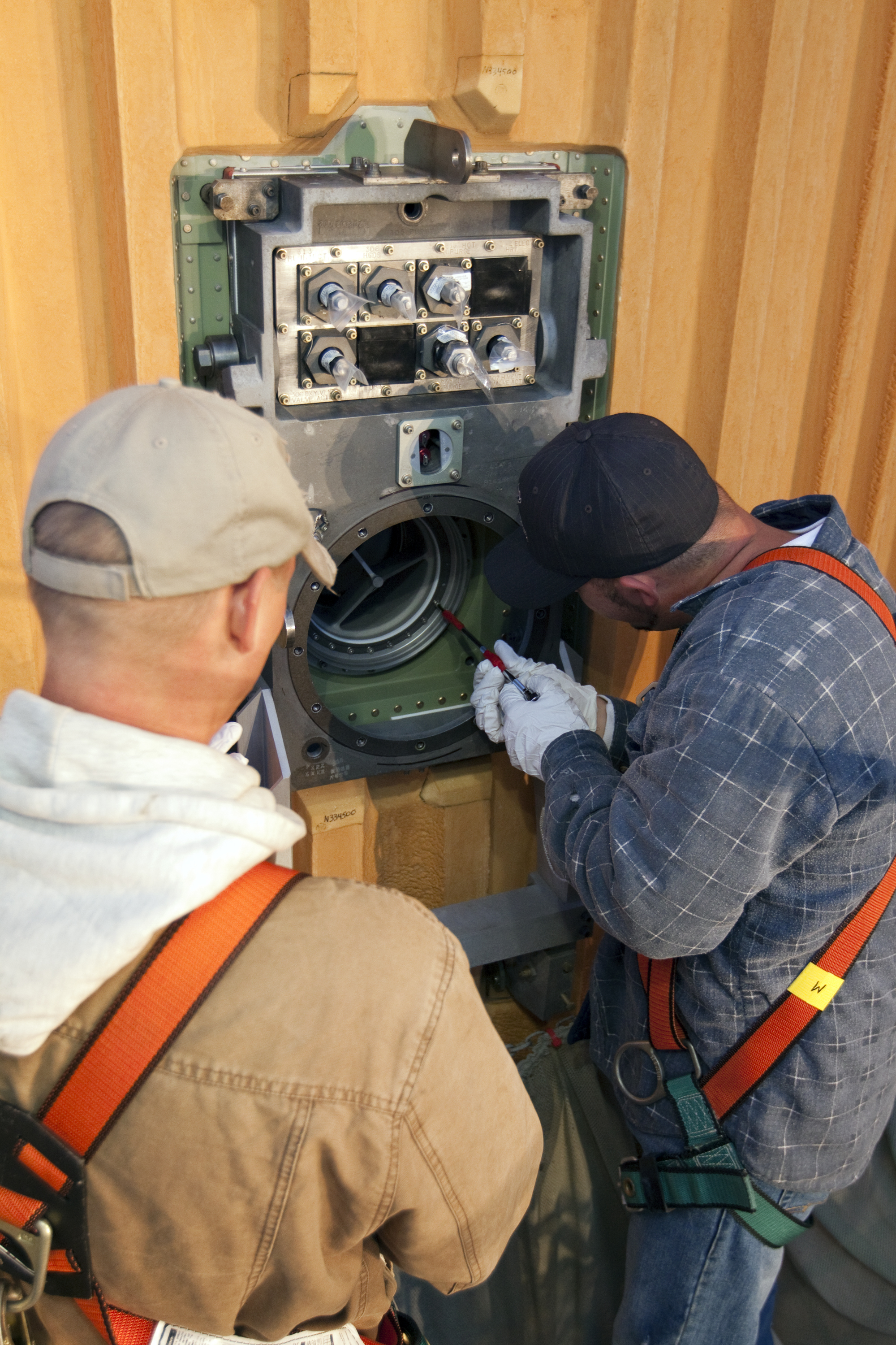 CAPE CANAVERAL, Fla. – On Launch Pad 39A at NASA's Kennedy Space Center in Florida, workers begin to remove the seal from the ground umbilical carrier plate (GUCP). A hydrogen gas leak at that location on the external fuel tank during tanking for space shuttle Discovery's STS-133 mission to the International Space Station caused the launch attempt to be scrubbed Nov. 5. The GUCP will be examined to determine the cause of the hydrogen leak and then repaired. The GUCP is the overboard vent to the pad and the flame stack where the excess hydrogen is burned off. For more information on STS-133, visit